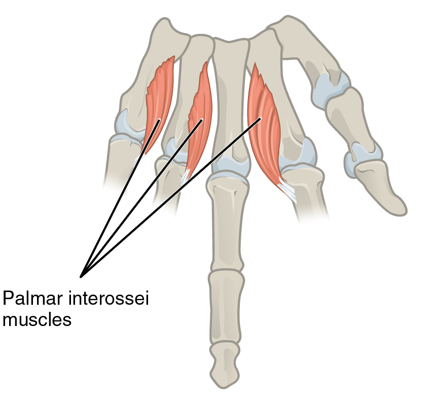 Based off: Based off